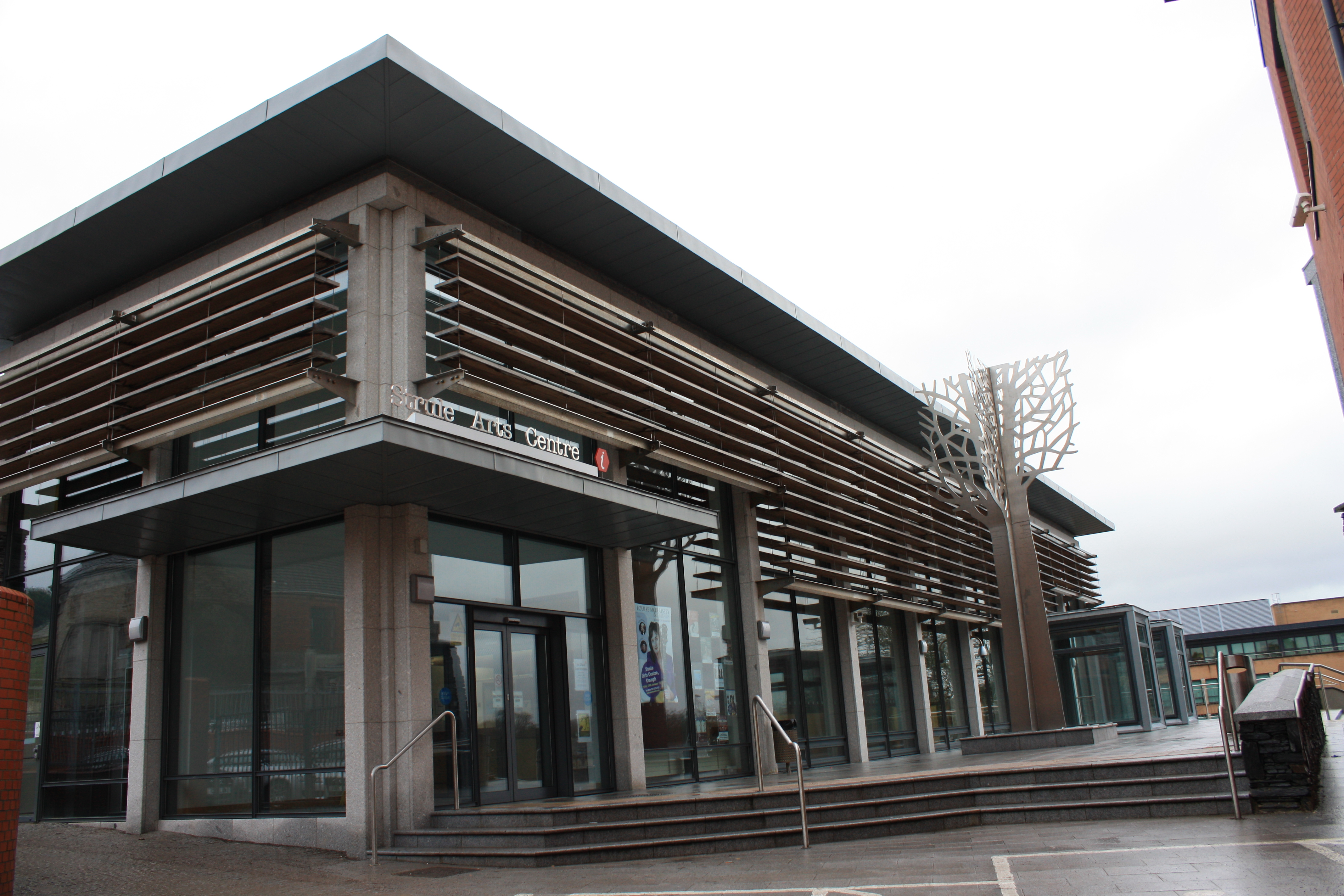 Strule Arts Centre and Treelines sculpture, Townhall Square, Omagh, County Tyrone, Northern Ireland, January 2010